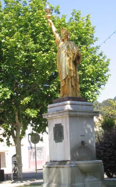 Statue of Liberty, replica in Saint-Cyr-sur-Mer (France)